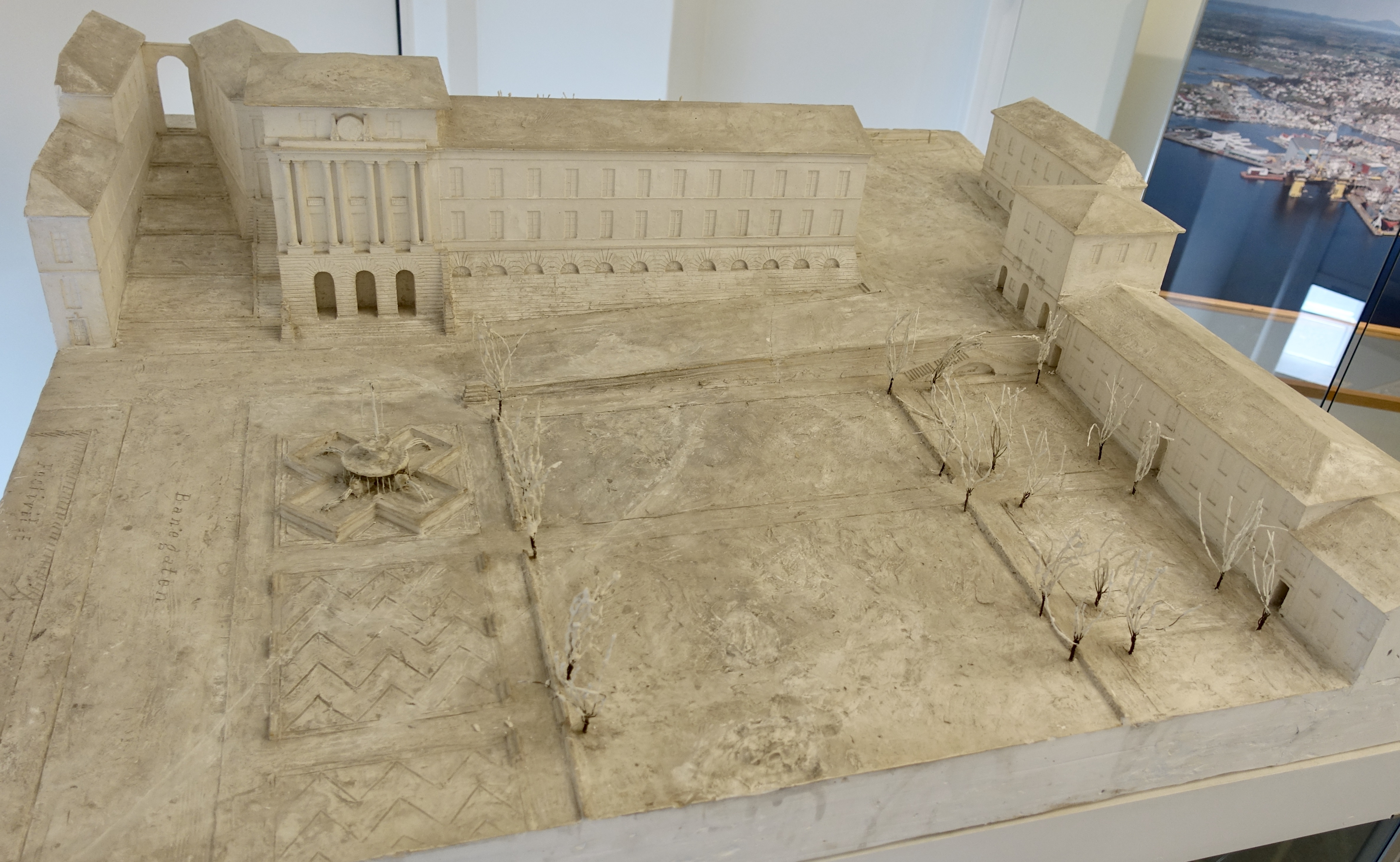 Architectural model of Haugesund rådhus, Townhall of Haugesund, by Gudolf Blakstad and Hermann Munthe-Kaas 1922, on display in Karmsund Folkemuseum in Haugesund. Photo taken on June 10th, 2020.